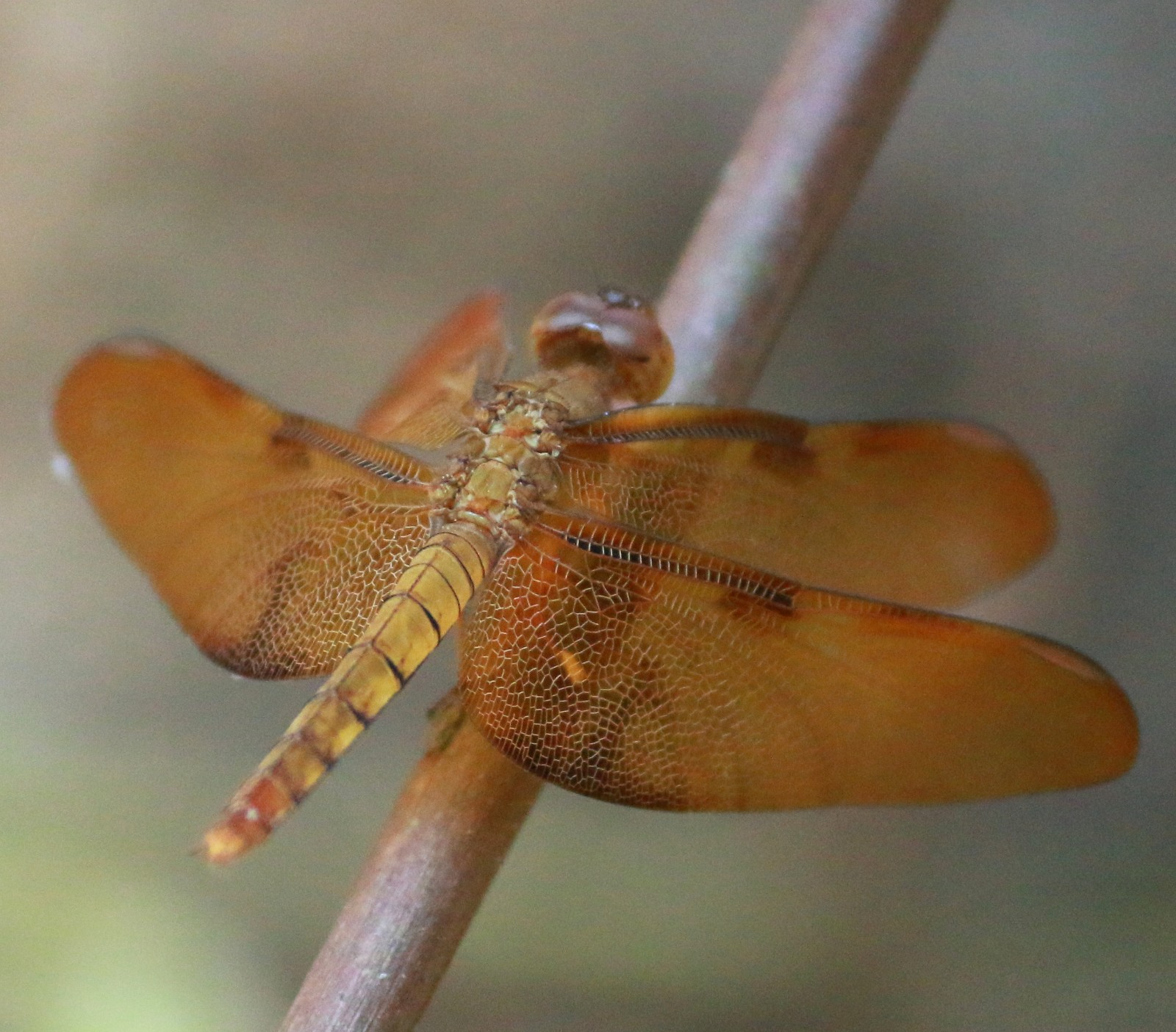 Fulvous forest skimmer